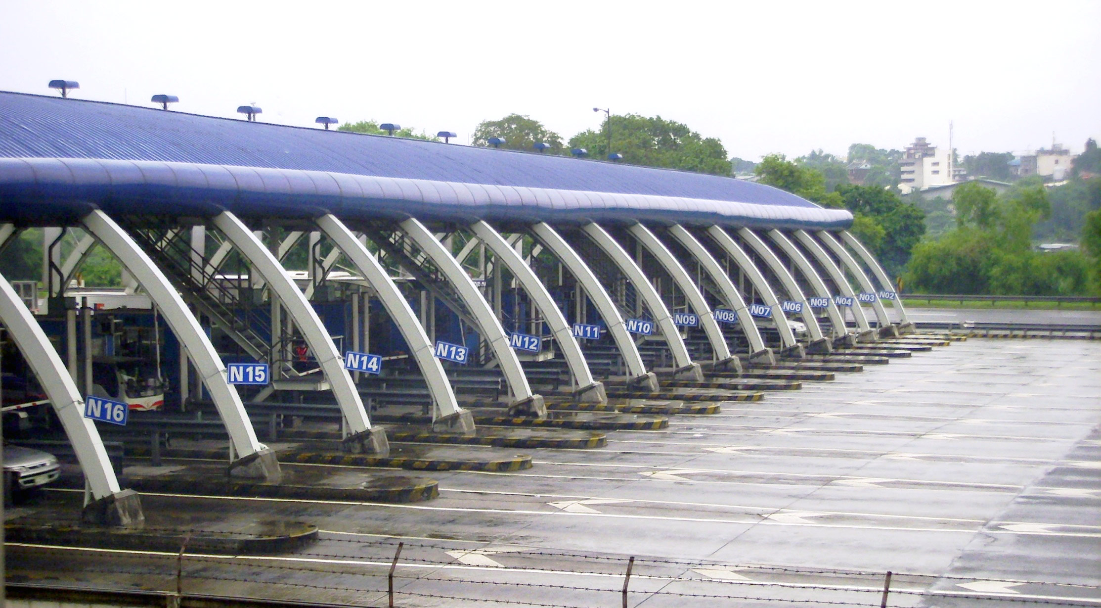 Aerial View of Balintawak Toll Plaza, NLEx